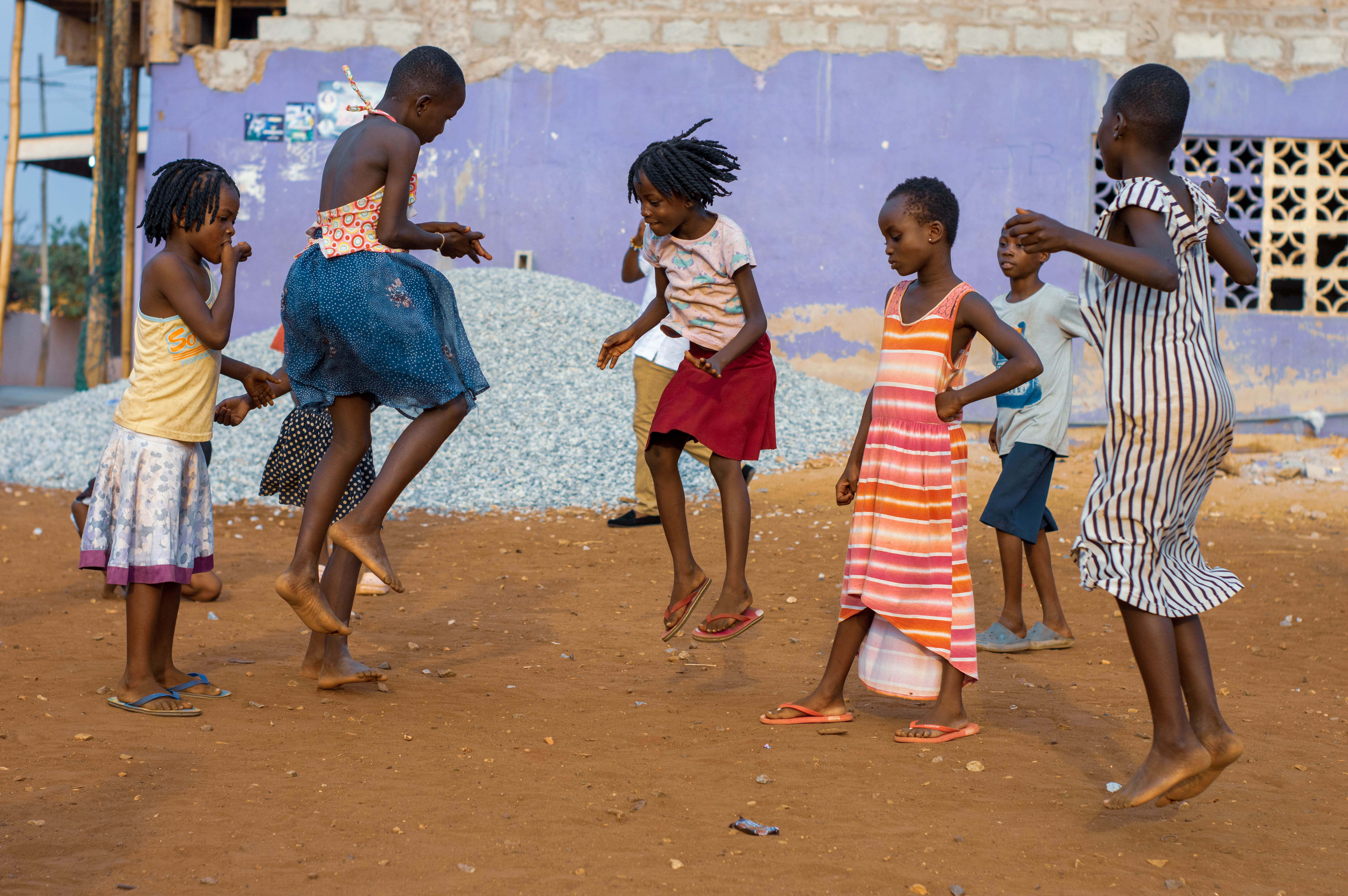 Ampe is a Ghanaian game played by school kids. it is played by two or more players. The leader and another player jump up at the same time, clap, and thrust one foot forward when they jump up. If the leader and the other player have the same foot forward the leader wins a point. if the opposite happens the other player wins a point.